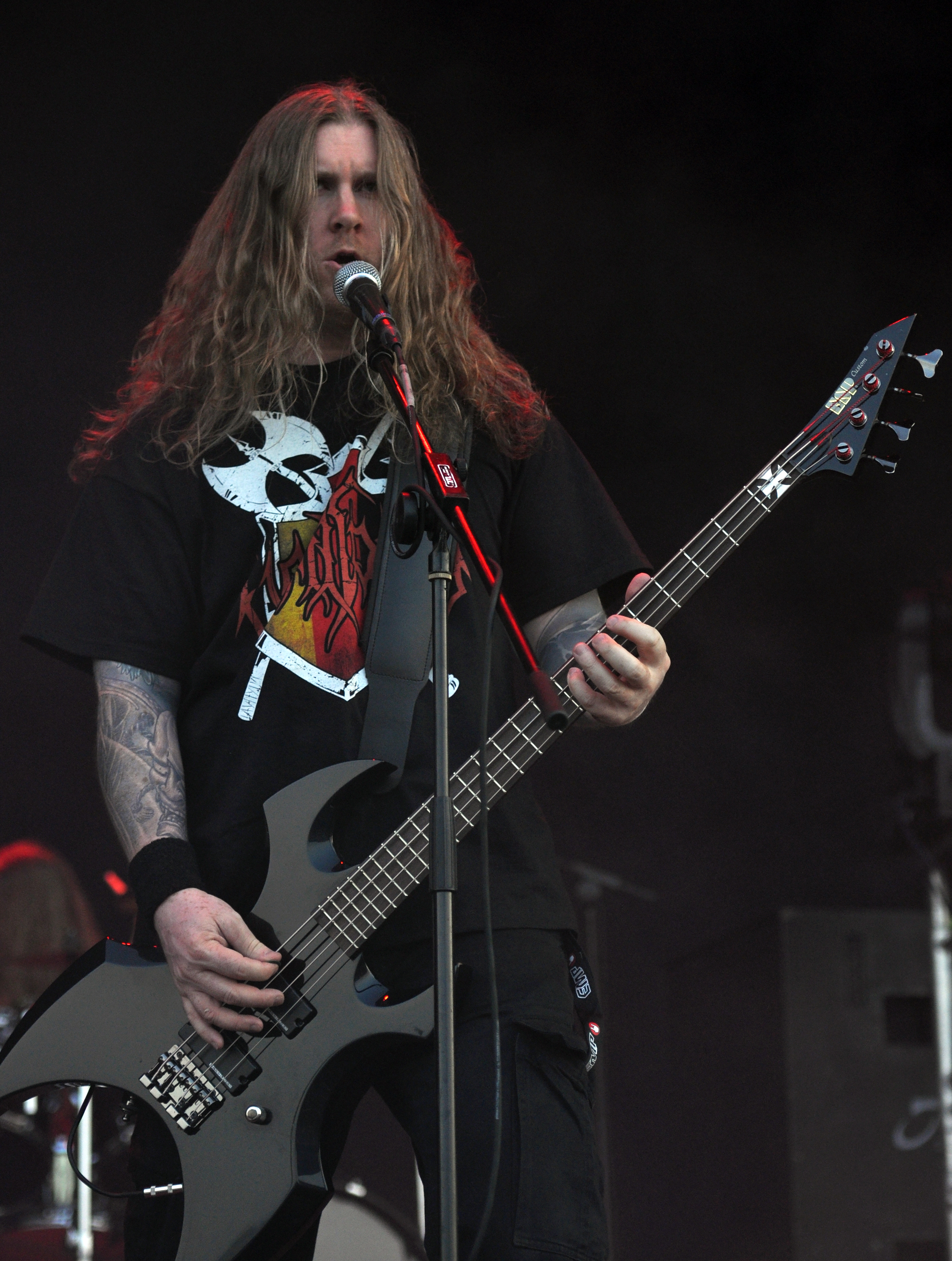 Vomitory at Party.San Metal Open Air 2013